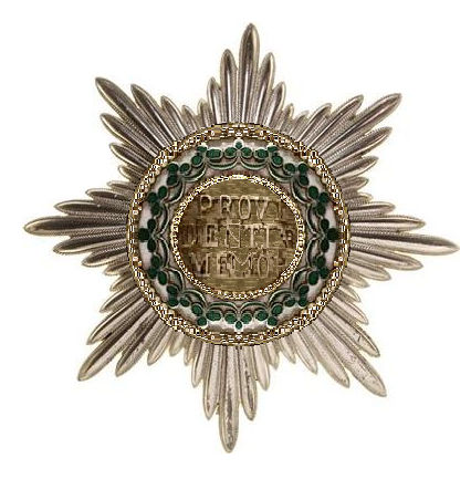 Ster Order of the Crown of Saxony